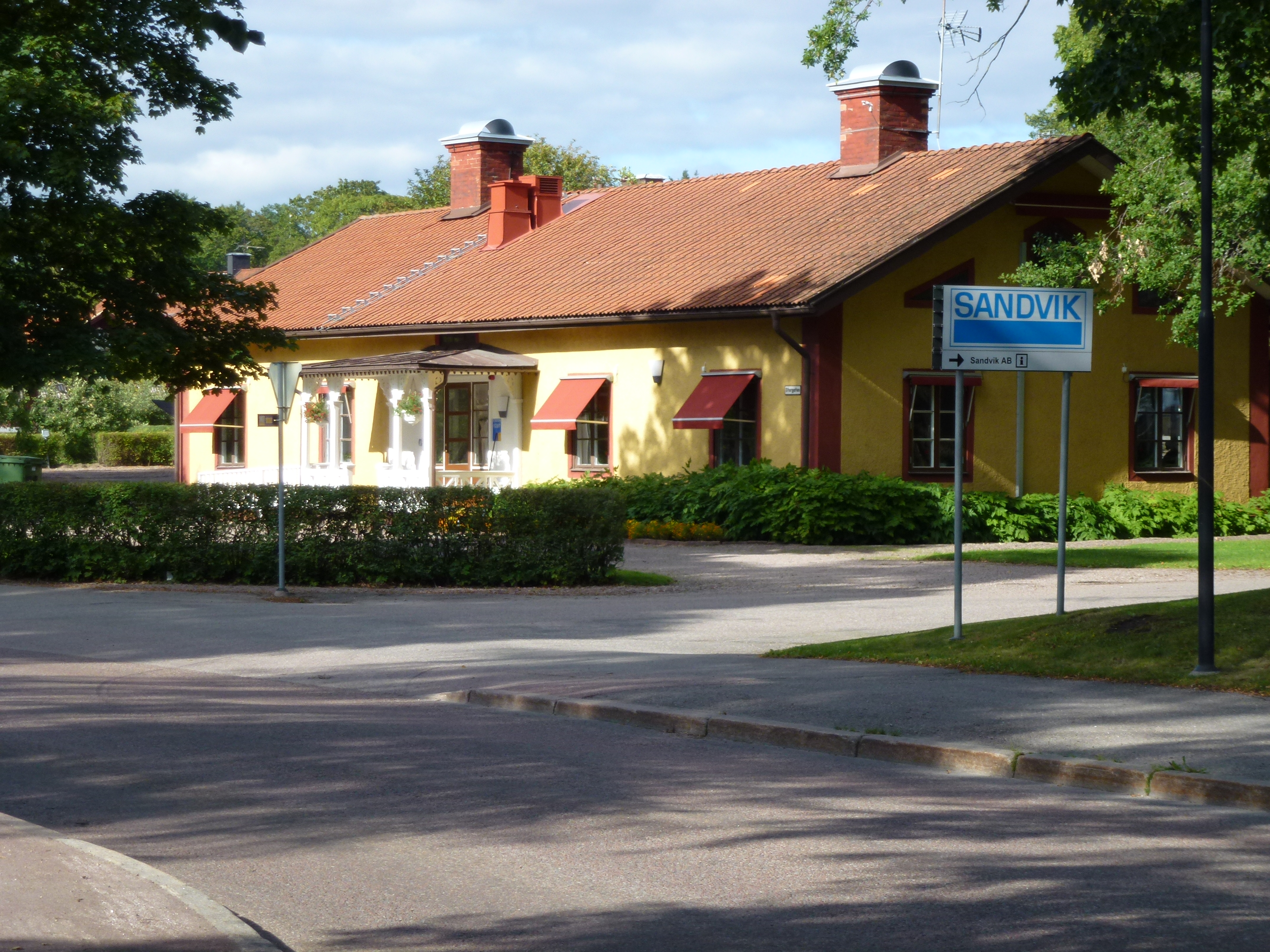 Sandviken - original house for workers from mid 19th century